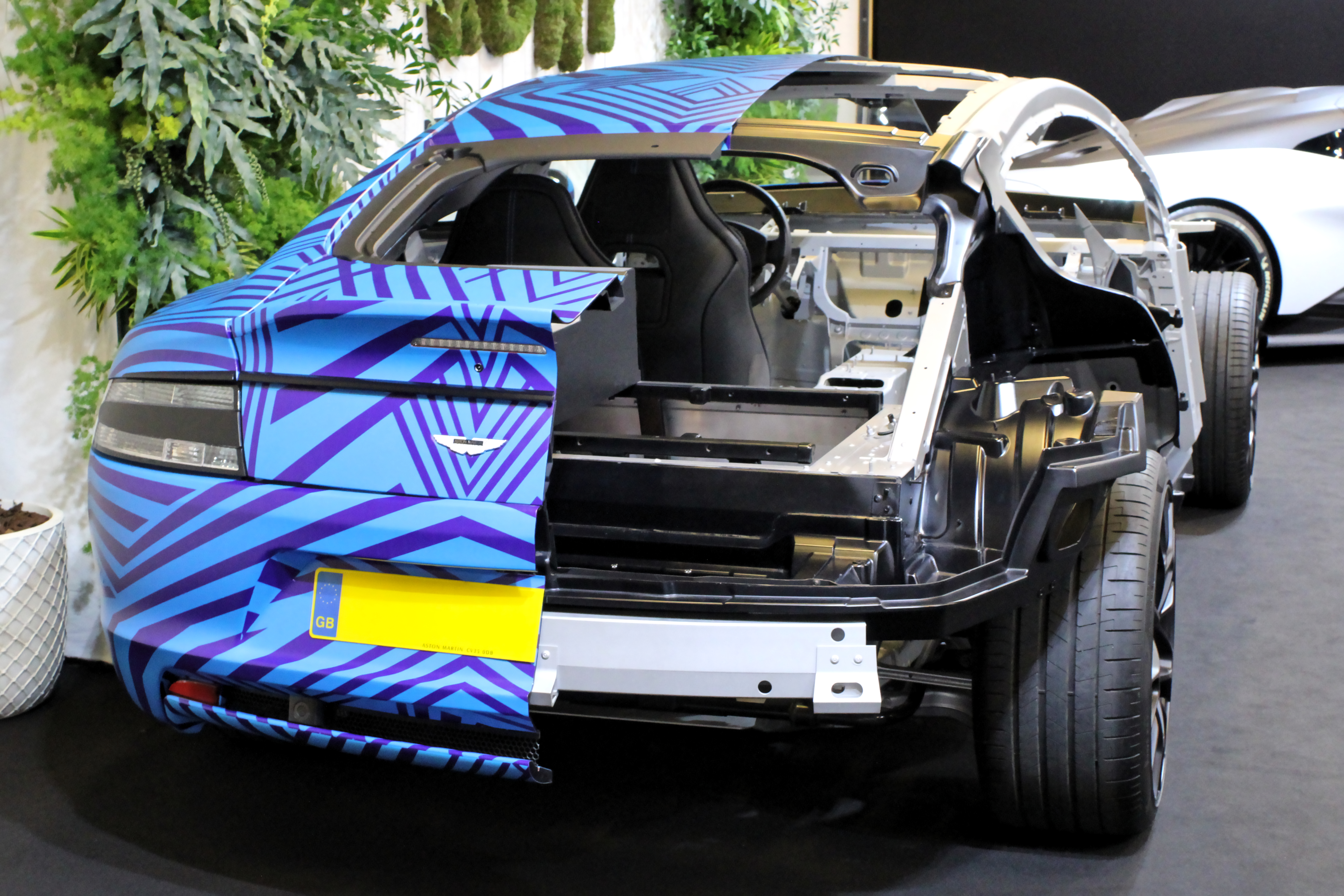 Aston Martin Rapide E at Top Marques 2019